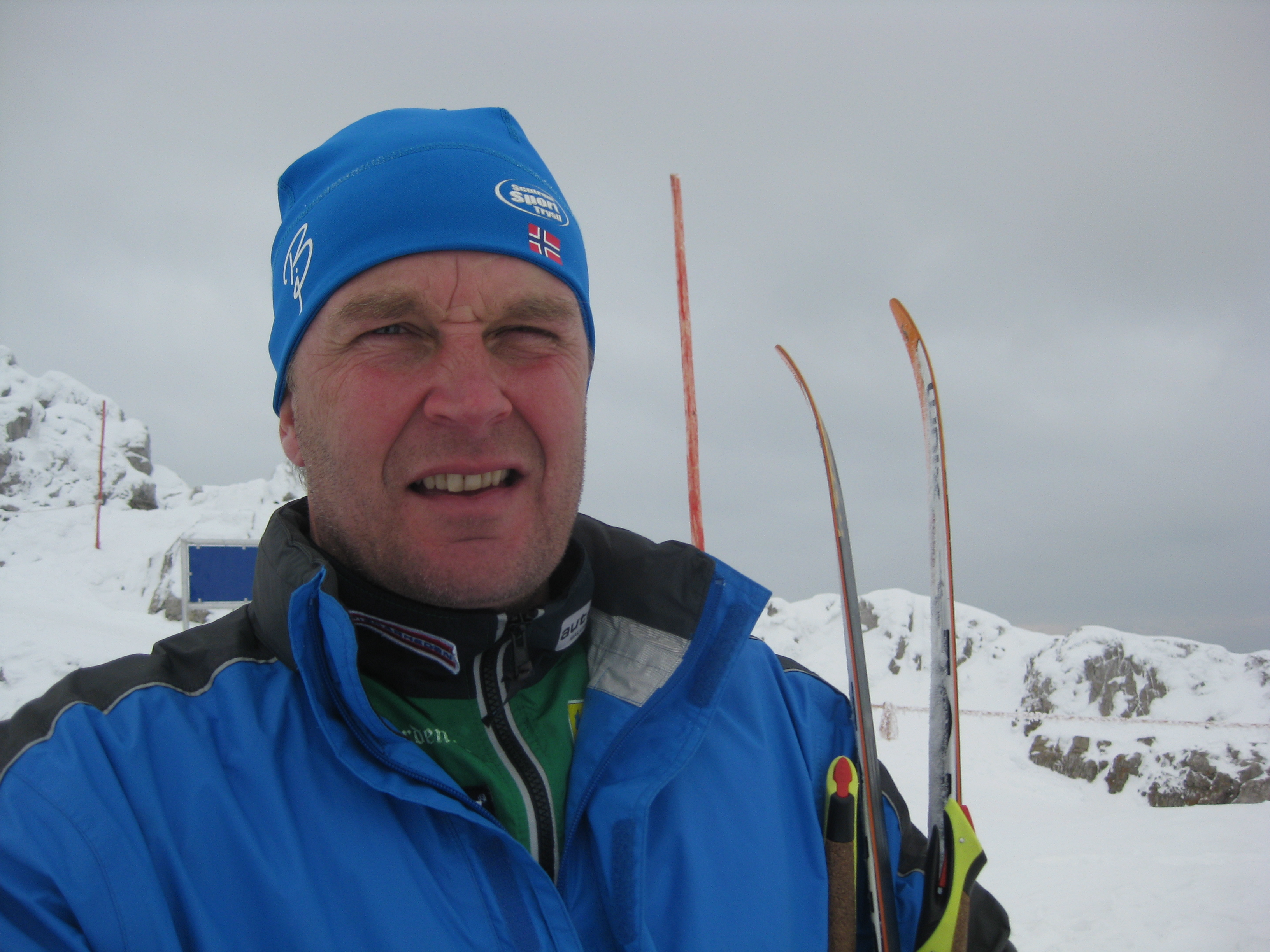 Roger Westling on top of the Dachstein-glacier